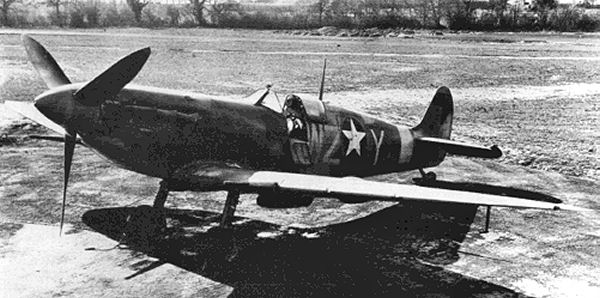 Spitfire V of the US 309th Fighter Squadron, 31st Fighter Group at Atcham Airfield, England